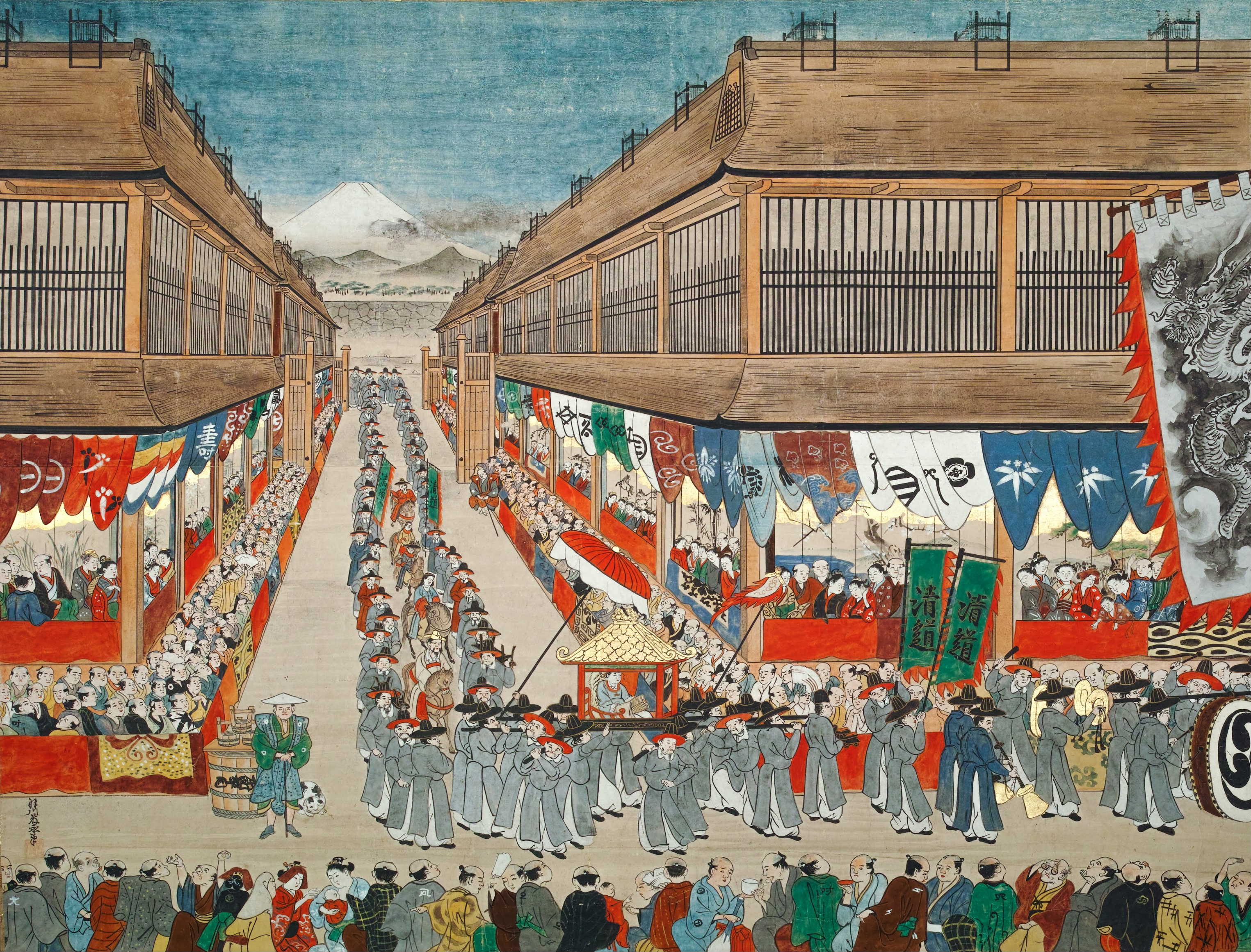 Chōsen Tsūshin-shi Raichō-zu, Japanese painting by Tōei Hanegawa, depicting the procession of the 1748 Joseon missions to Japan in Edo. Collection of The City of Kobe Museum, the Hajime Ikenaga Gallery. This is a landscape painting of the Korean communication ambassador, including the equestrian figure, marching in an orderly manner. This style was born in Edo in the 1740s and was called Uki-e because things in the painting looked three-dimensional. It can also be seen as “floating picture” in the box drawing of this figure. This figure is presumed to have been drawn based on the 10th communication envoy of the 1st year of Kannobu (1748) among the Korean correspondents who came to Japan when the general changed. The clerk and his group have finished greetings to the Shogun, crossing Tokiwabashi to return to the embassy Asakusa Honganji, and drawing a scene past Honcho 2-chome. From the box on the storage box, you can see that this figure was the work of Kojiro (Kojiin), the second child of Tokugawa Yoshimune and the child of Munetake Tayasu, who frustrated at the age of 9 in 1753. After the death of Kojiro, it was given to the priest Masamitsu Shun of Ryoun-in, where Kojiro was buried, at the child temple of Toeizan Kaneiji in 4th year of the Holy calendar, and even from Enshoji Temple in 1961 to the Enryakuji Temple. It seems to have been dropped. There is an opinion that this figure is different from the details of the actual communication ambassador, so there is an opinion that it is regarded as a Tang people procession of the Sanno Festival, but it is not only the scene of the festival, but the communication procession is the main, and the memory of the festival is mixed. It is thought that it was drawn.